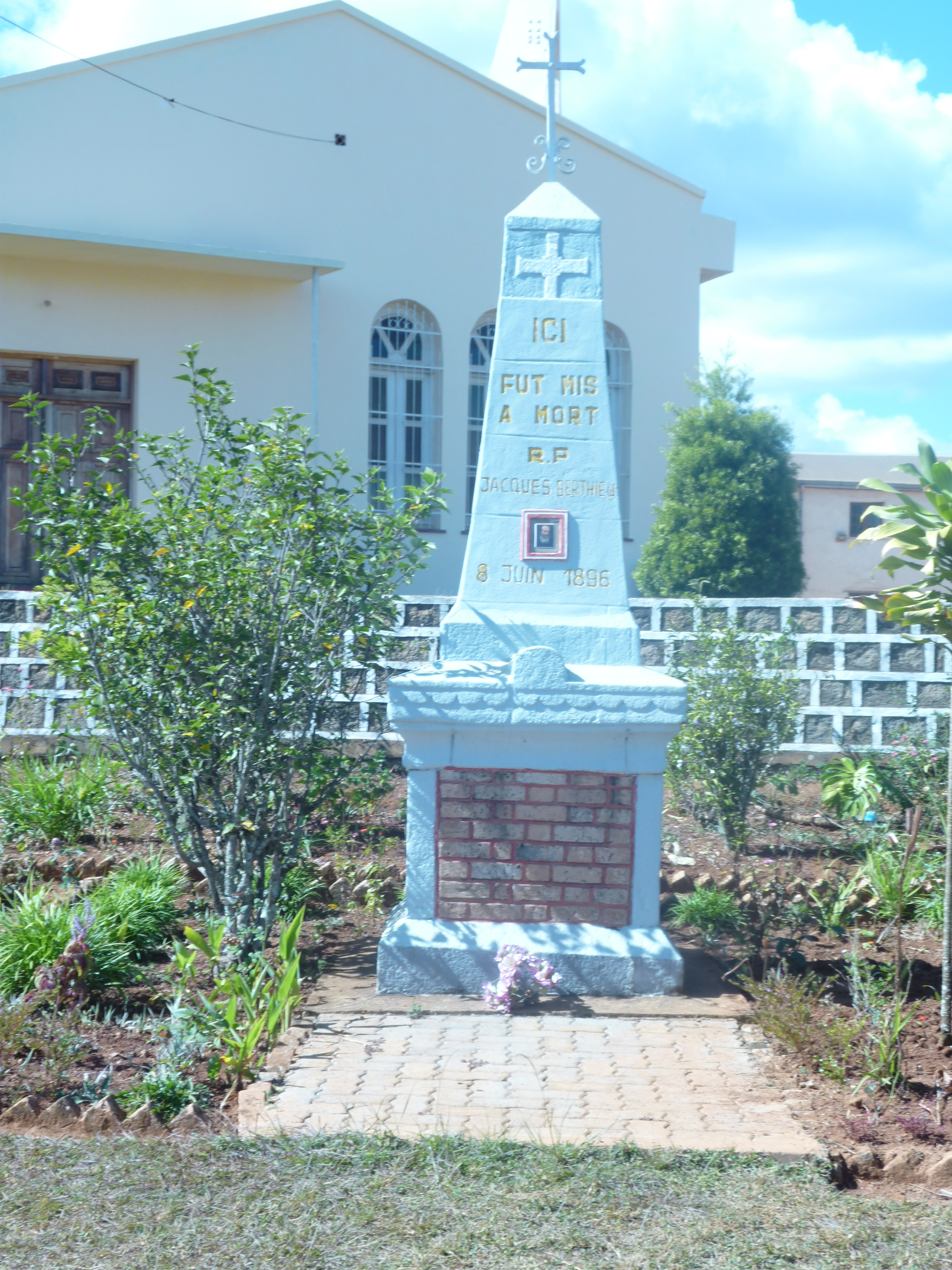 The monument erected at the place where Berthieu was executed (in Ambiatibe, Madagascar).